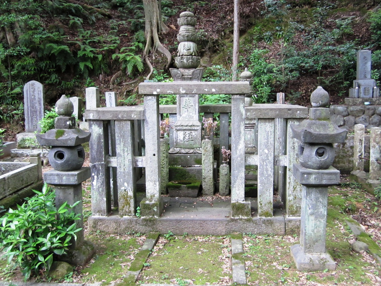 The graves of Inoue clan at Hongen-ji in Kakegawa, Shizuoka.